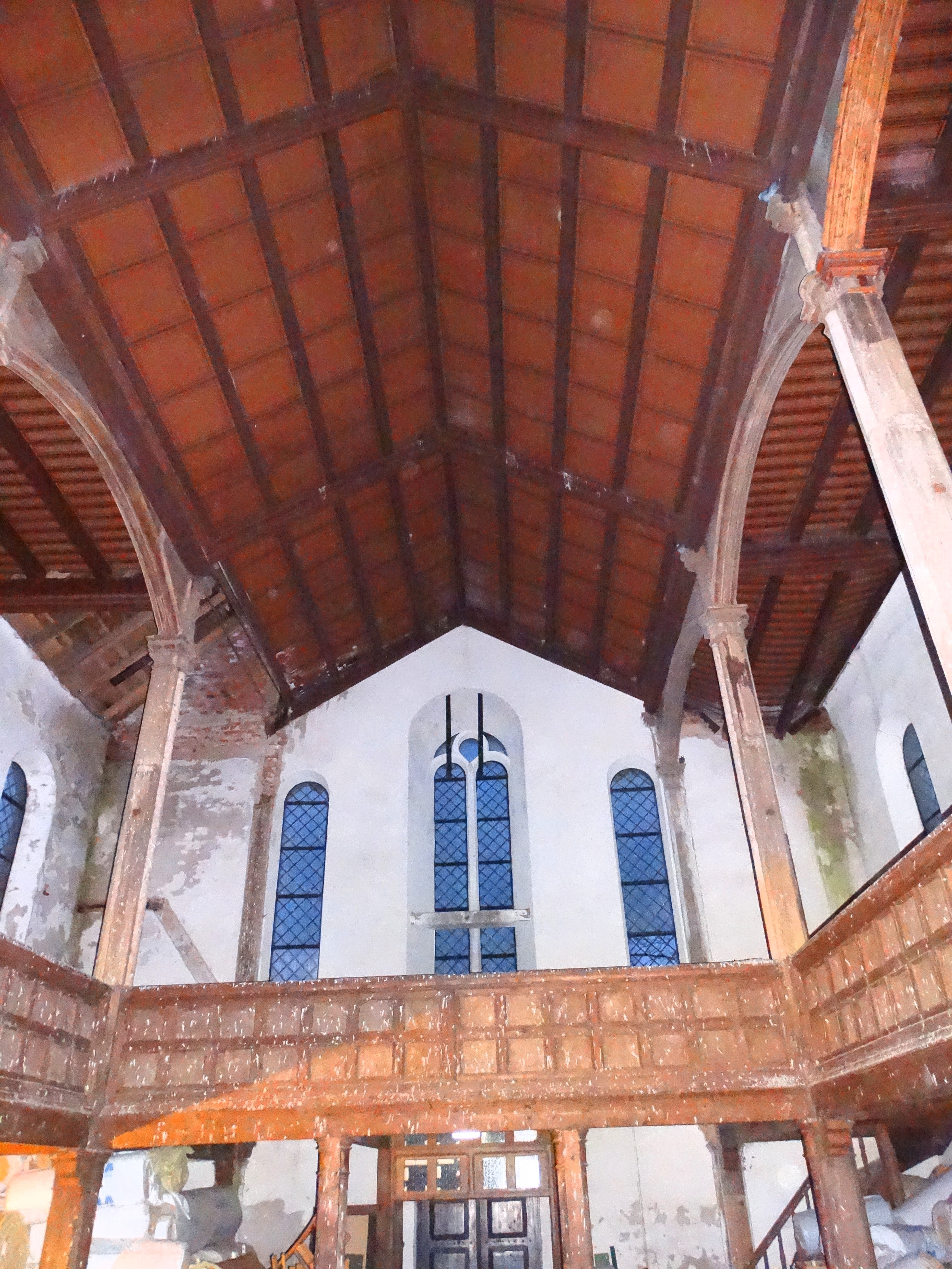 Lutheran Church, Vyžiai, Šilutė district, Lithuania